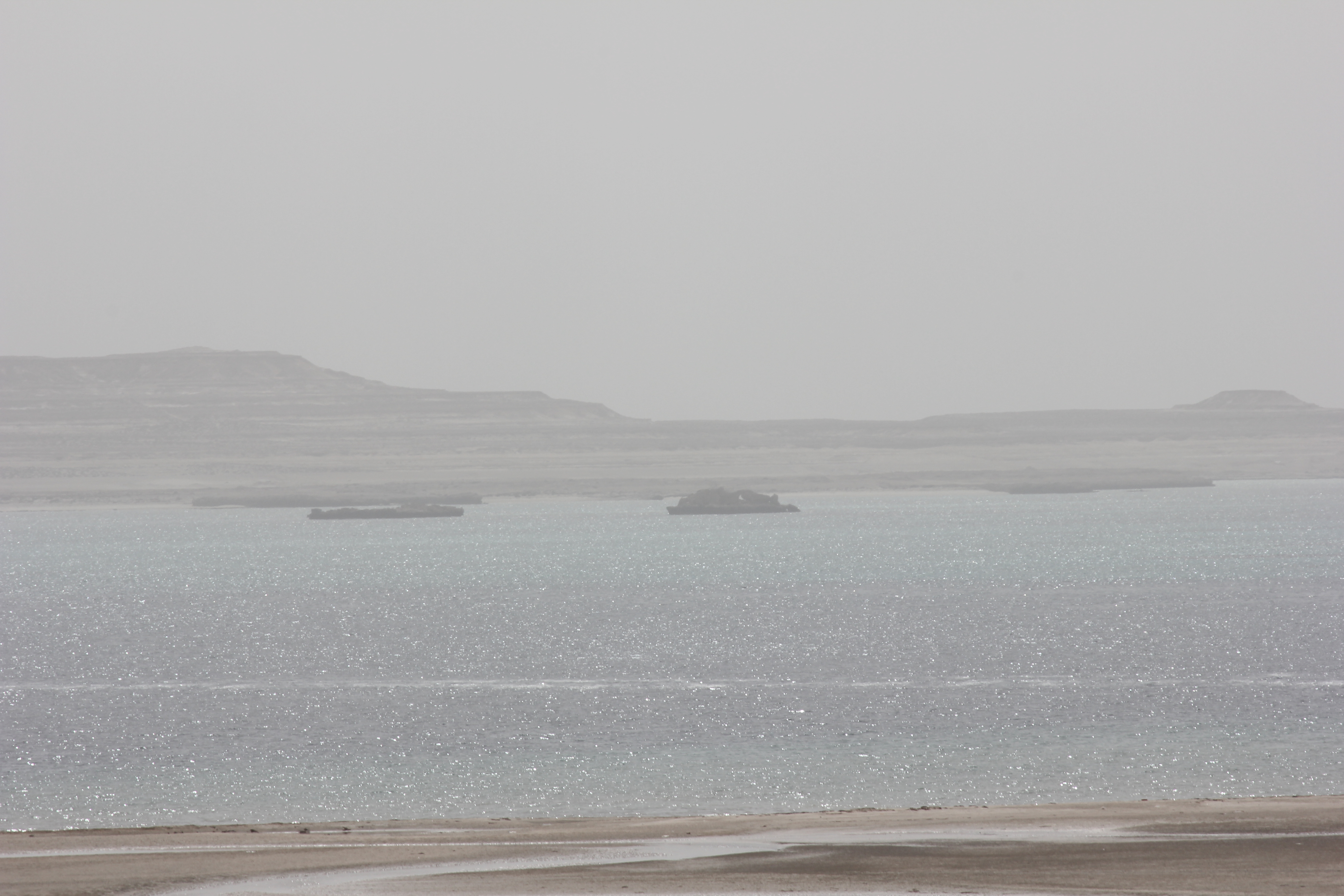 Stretch of water separating Qatar and Saudi Arabia, as seen from the Qatar side.